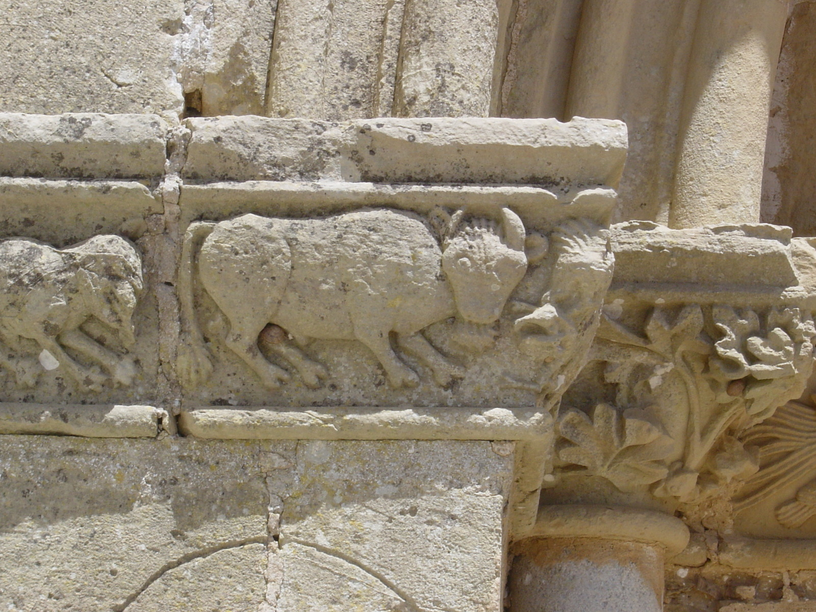 Capitel da porta lateral da Igreja Matriz de Santiago do Cacém